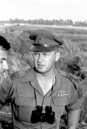 Yitzhak Rabin as a Northern Command commander